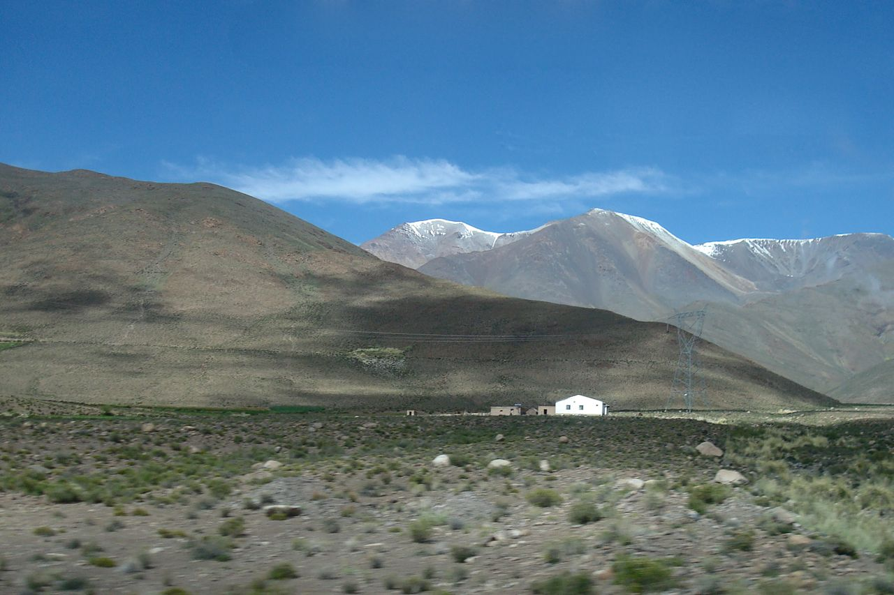 RN51 near San Antonio de los Cobres